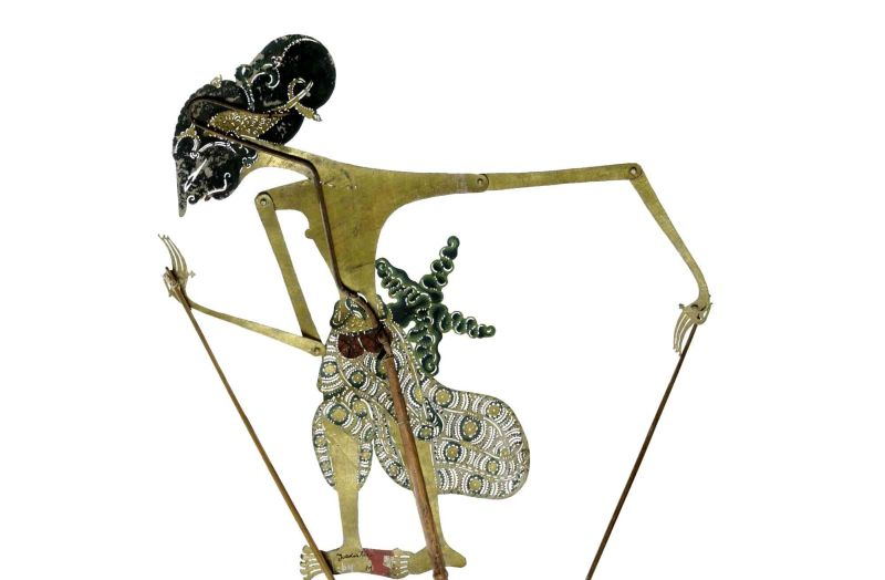 Shadow puppet representing Yudhistira